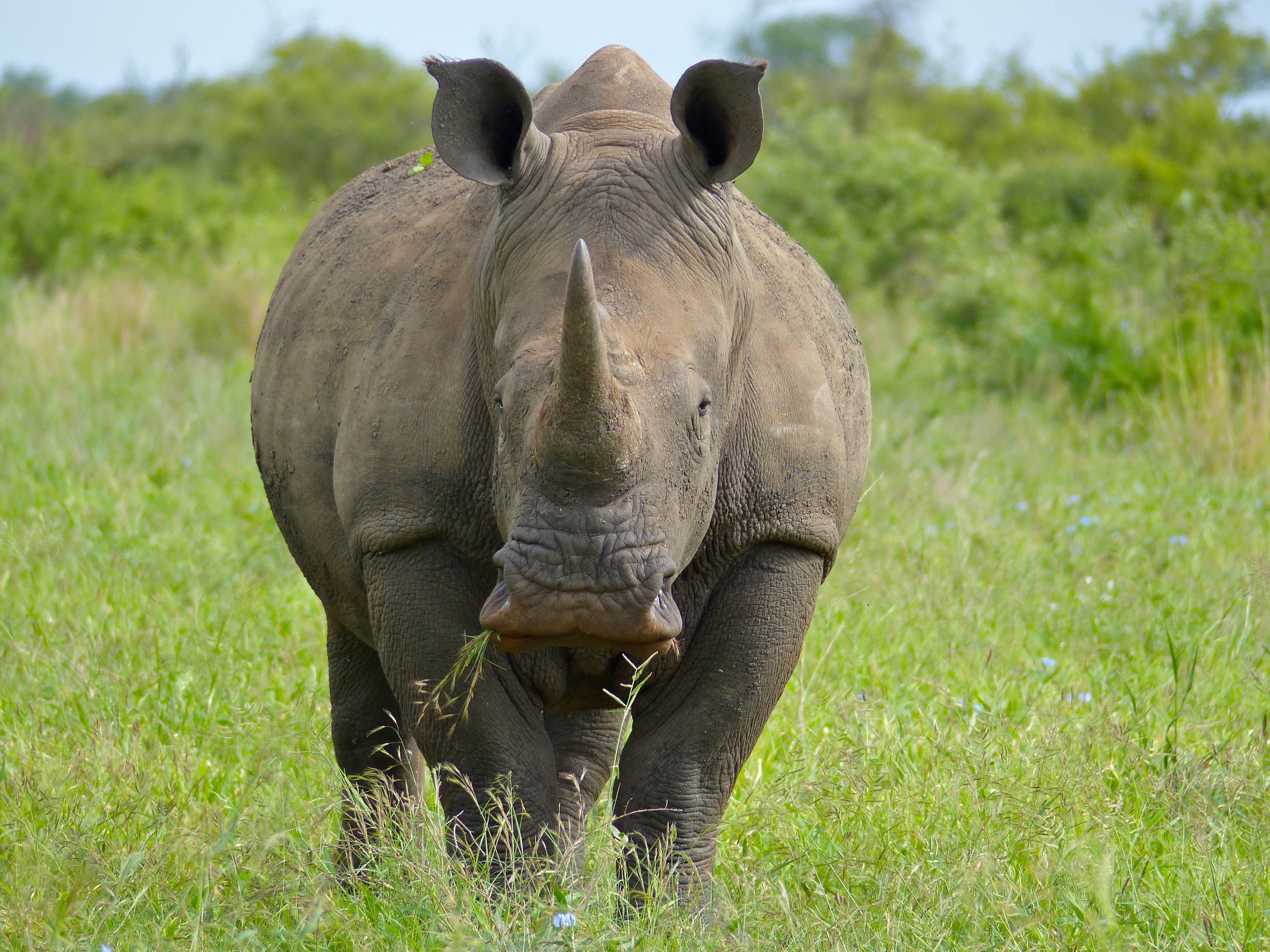 S137 Road South of Lower Sabie, Kruger NP, SOUTH AFRICA